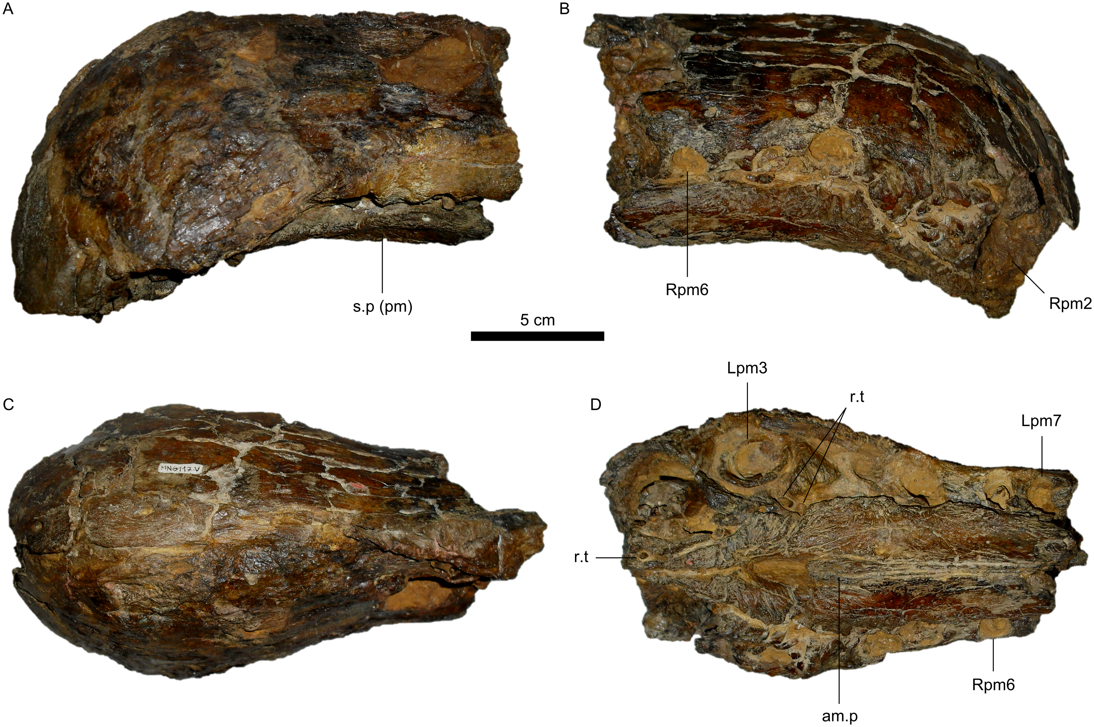 Specimen MN 6117-V, holotype of Oxalaia quilombensis. A, Left lateral view. B, Right lateral view. C, Dorsal view. D, Slightly oblique ventral view, emphasizing the sculptured condition of the palatal portion of the left premaxilla. Abbreviations for teeth follow Hendrickx et al. [58]. Additional abbreviations: am.p, anteromedial process of maxilla; pm, premaxilla; r.t, replacement tooth; s.p, secondary palate.